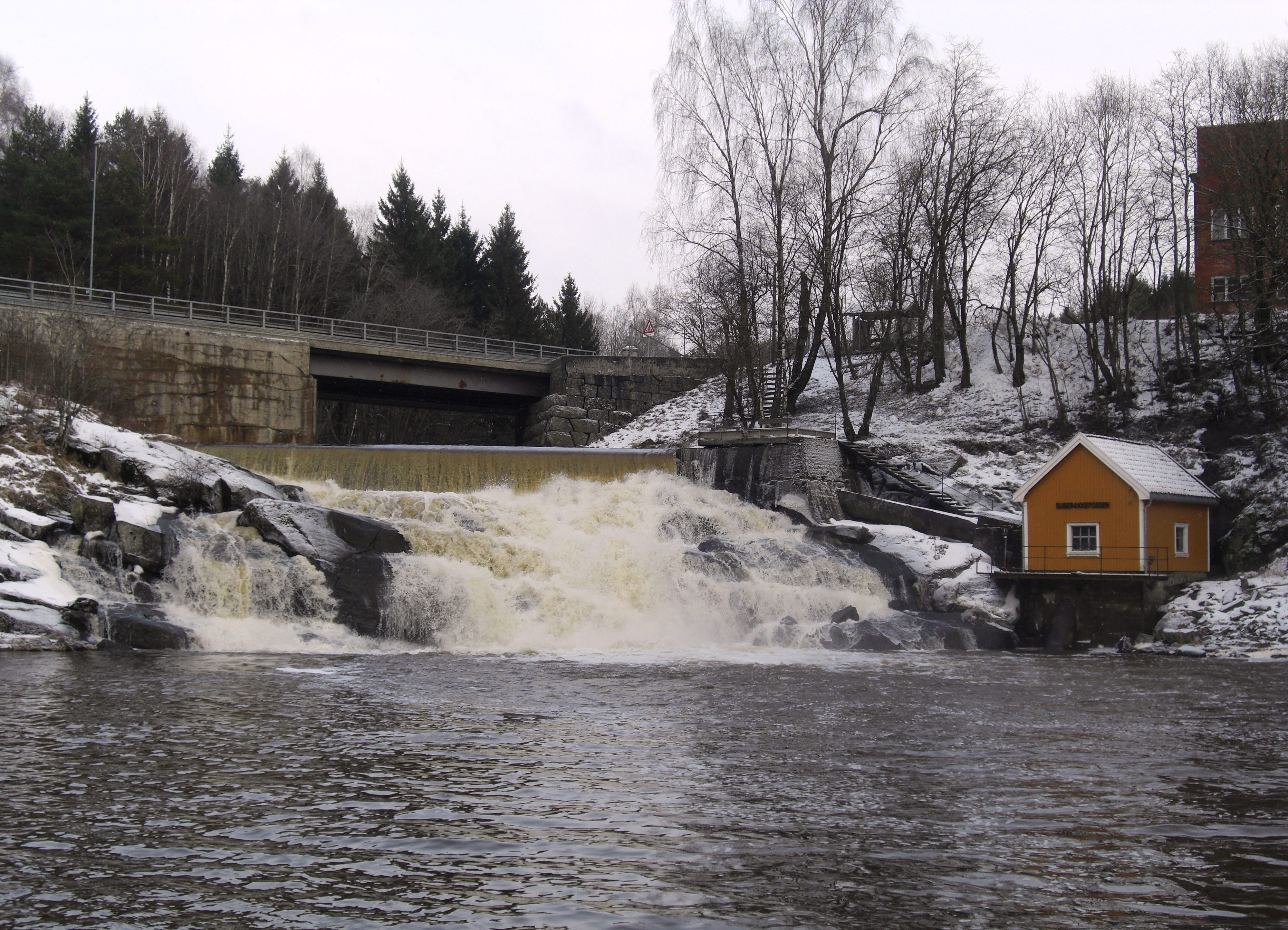 Susebakke waterfall at Mysen, Norway